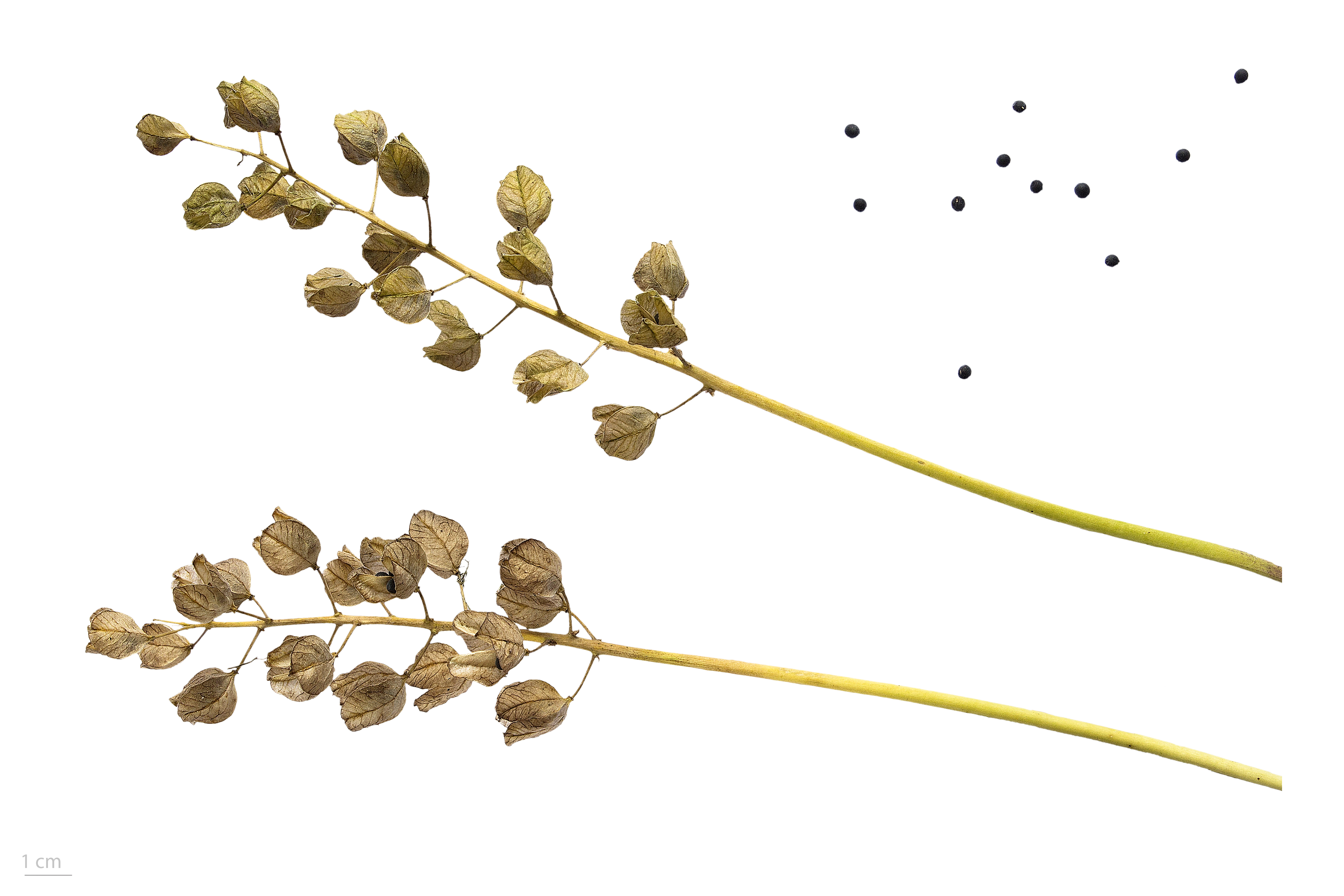 Roman Squill